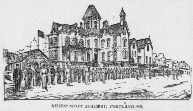 A sketch published on 1 January 1895 in the Morning Oregonian newspaper, depicting the Bishop Scott Academy of Portland, Oregon.